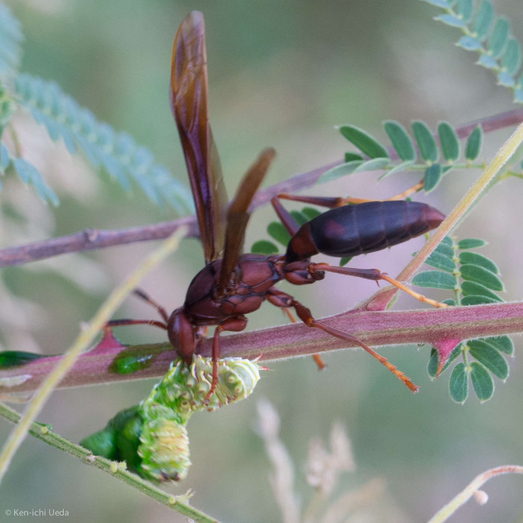 Neotropical Red Paper Wasp (Polistes canadensis)